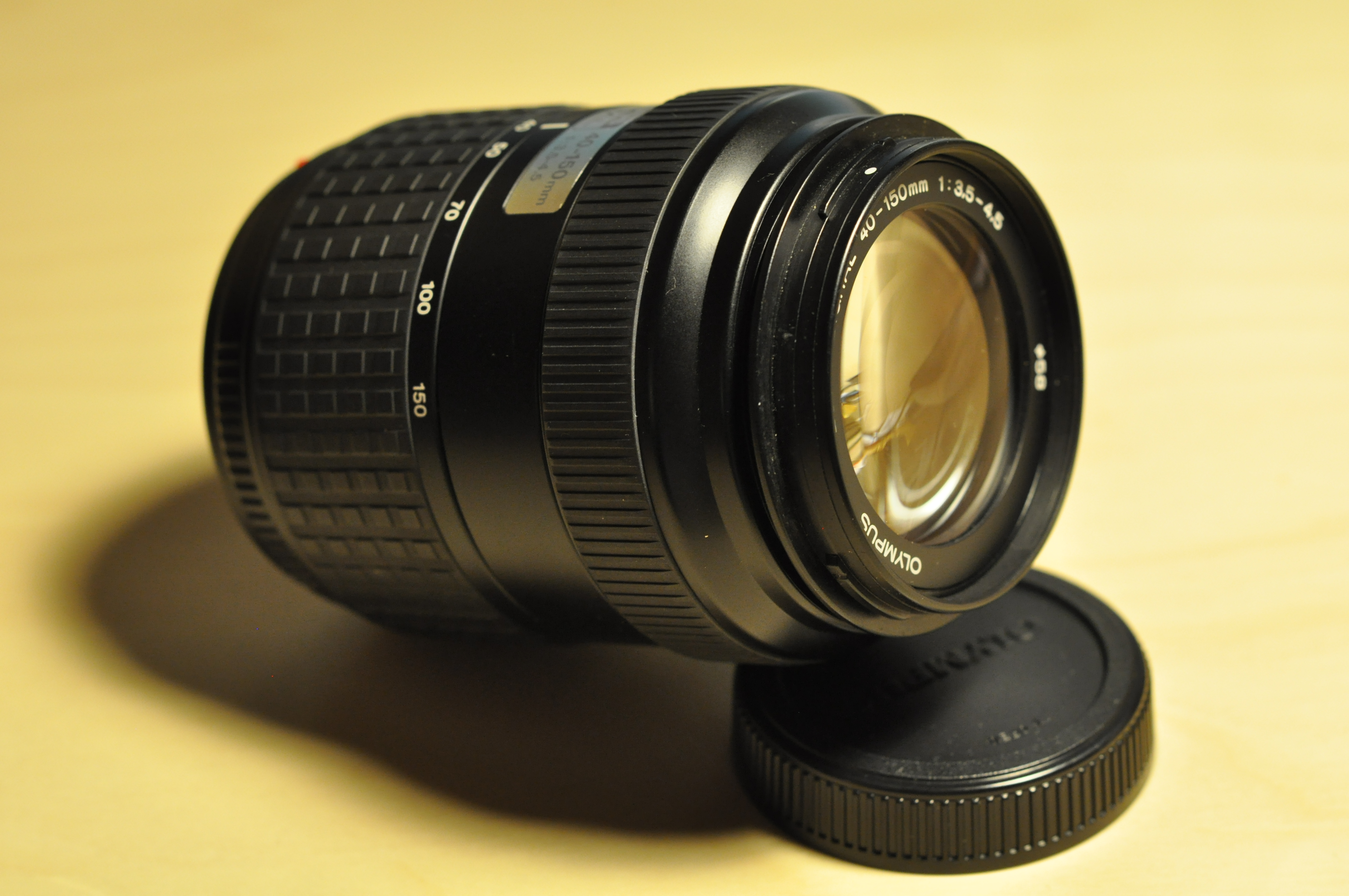 Olympus Zuiko Digital Four Thirds 40-150 f/3.5-4.5 lens, photographed from the front resting on the rear cap.